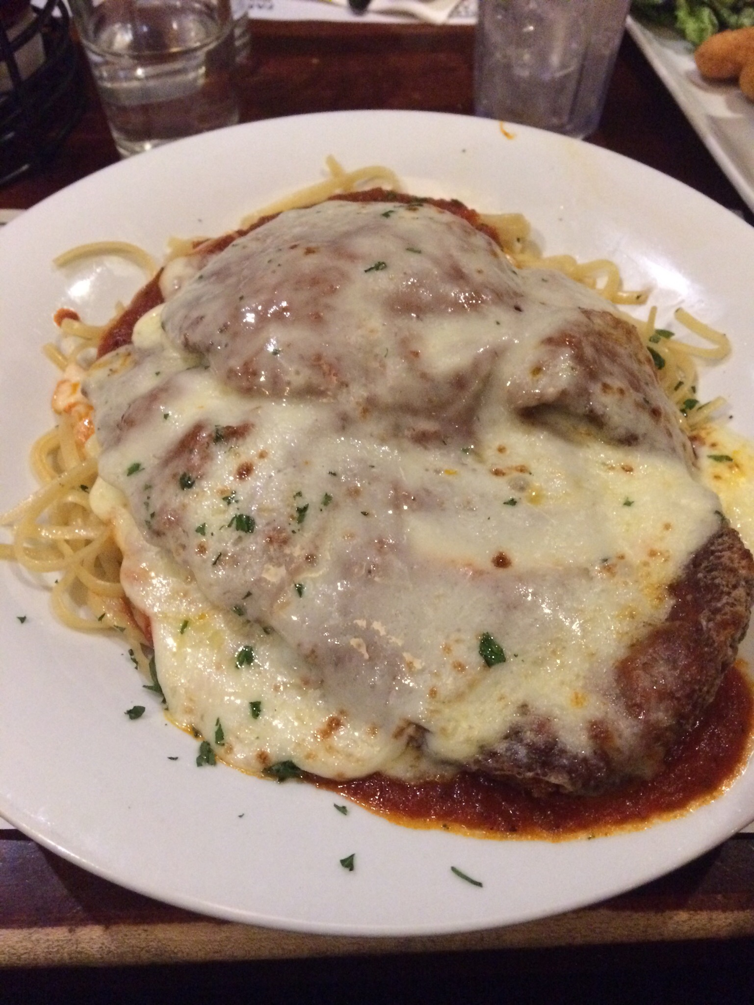 A dish of chickien parmigiana served with linguine in marinara sauce from a diner in northern New Jersey.